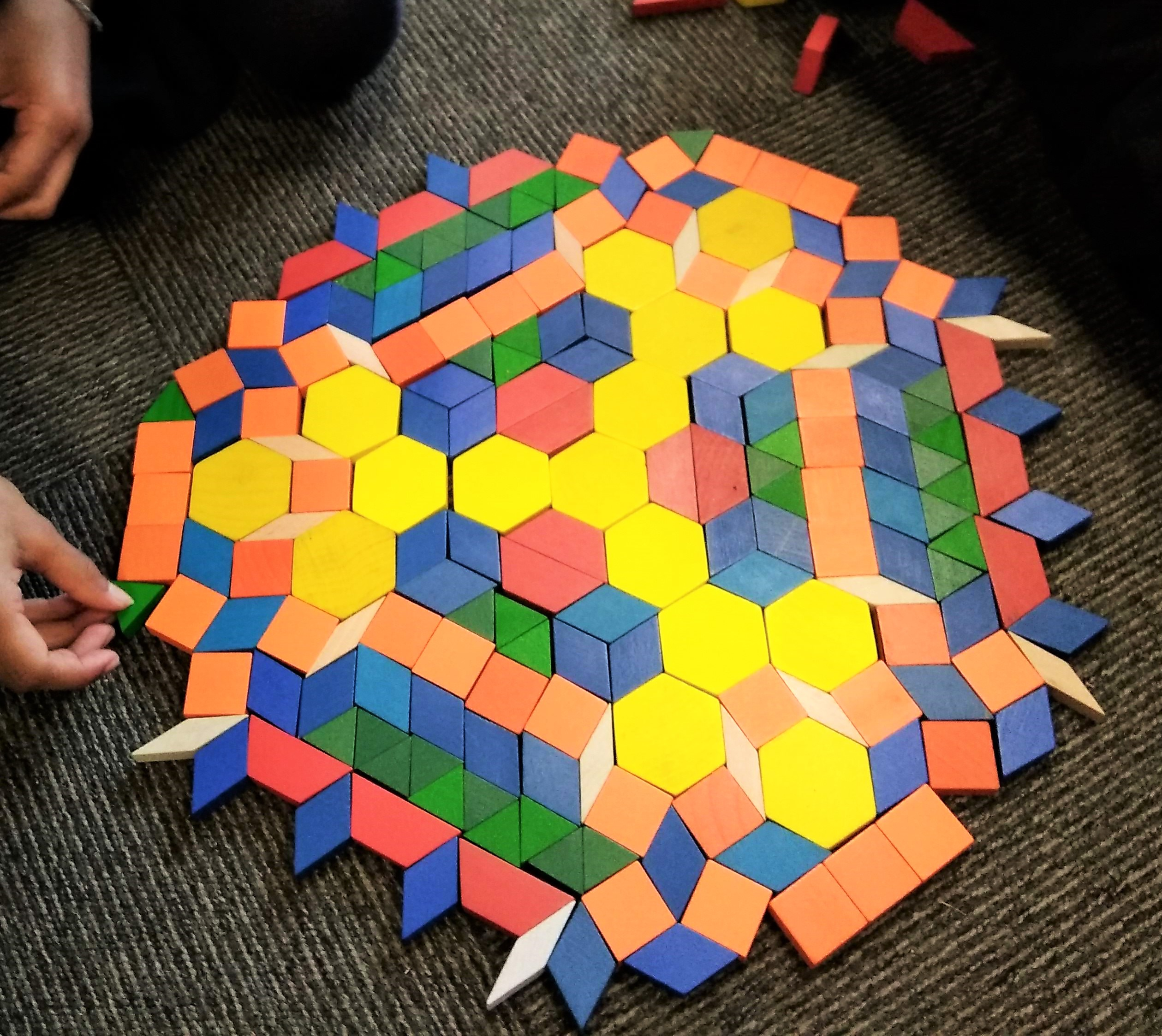 Using pattern blocks in class to create a symmetrical design